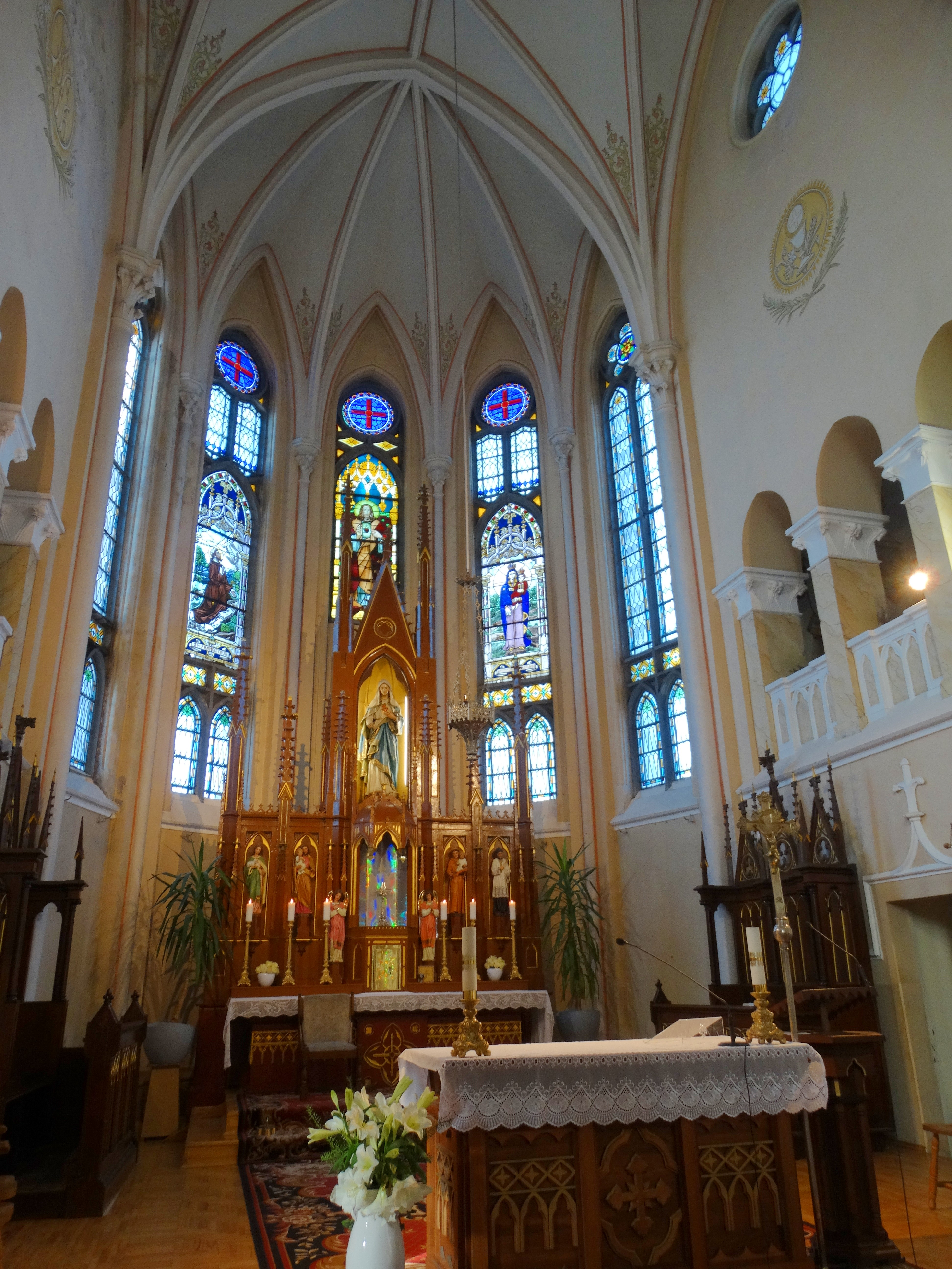 Catholic church, altar, Šilalė, Lithuania